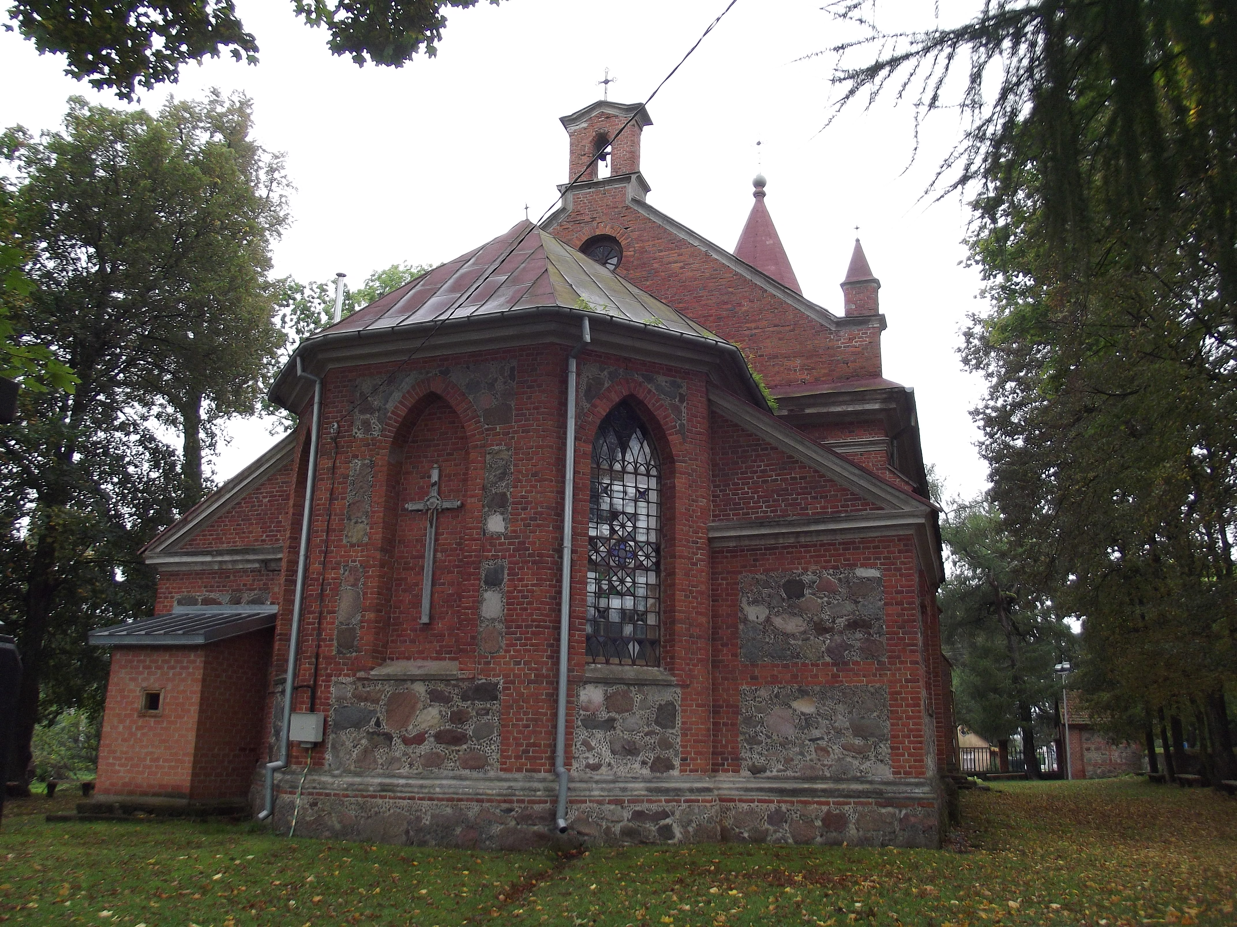 Catholic church in Šunskai, Marijampolė District, Lithuania